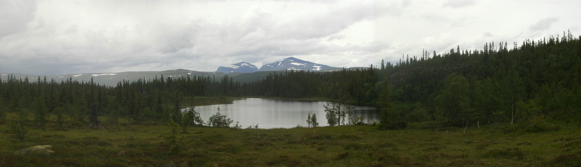 At User:Fredrik/Images the image is listed under "Photos taken by my dad".